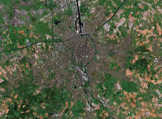 Satellite image of Bruges